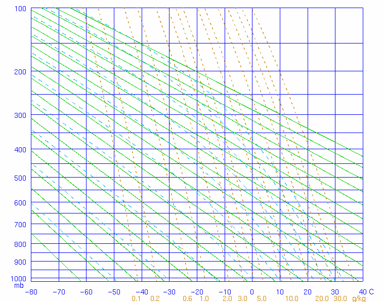 A Stüve diagram is one of four thermodynamic diagrams commonly used in weather analysis and forecasting. The Stüve diagram was developed circa 1927 by Georg Stüve (1888-1935) and quickly gained widespread acceptance in the United States. It has a simplicity in that it uses straight lines for the three primary variables: pressure, temperature and potential temperature. In doing so, however, it sacrifices the equal-area requirements (from the original Clausius-Clapeyron relation) that are satisfied in two of the other two diagrams (Skew-T and Tephigram). For practical purposes, this is not important. In the Stüve diagram, isotherms are straight and vertical, isobars are straight and horizontal and dry adiabats are also straight and have a 45 degree inclination to the left while moist adiabats are curved.